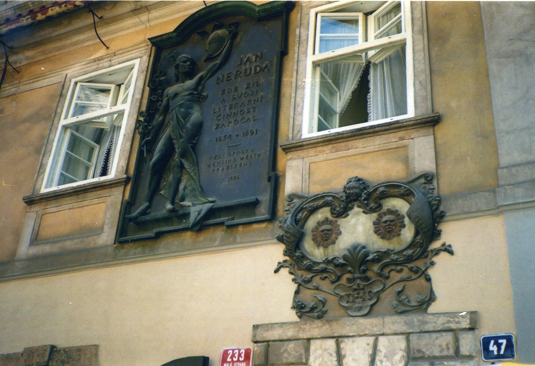 Jan Neruda house in Prague